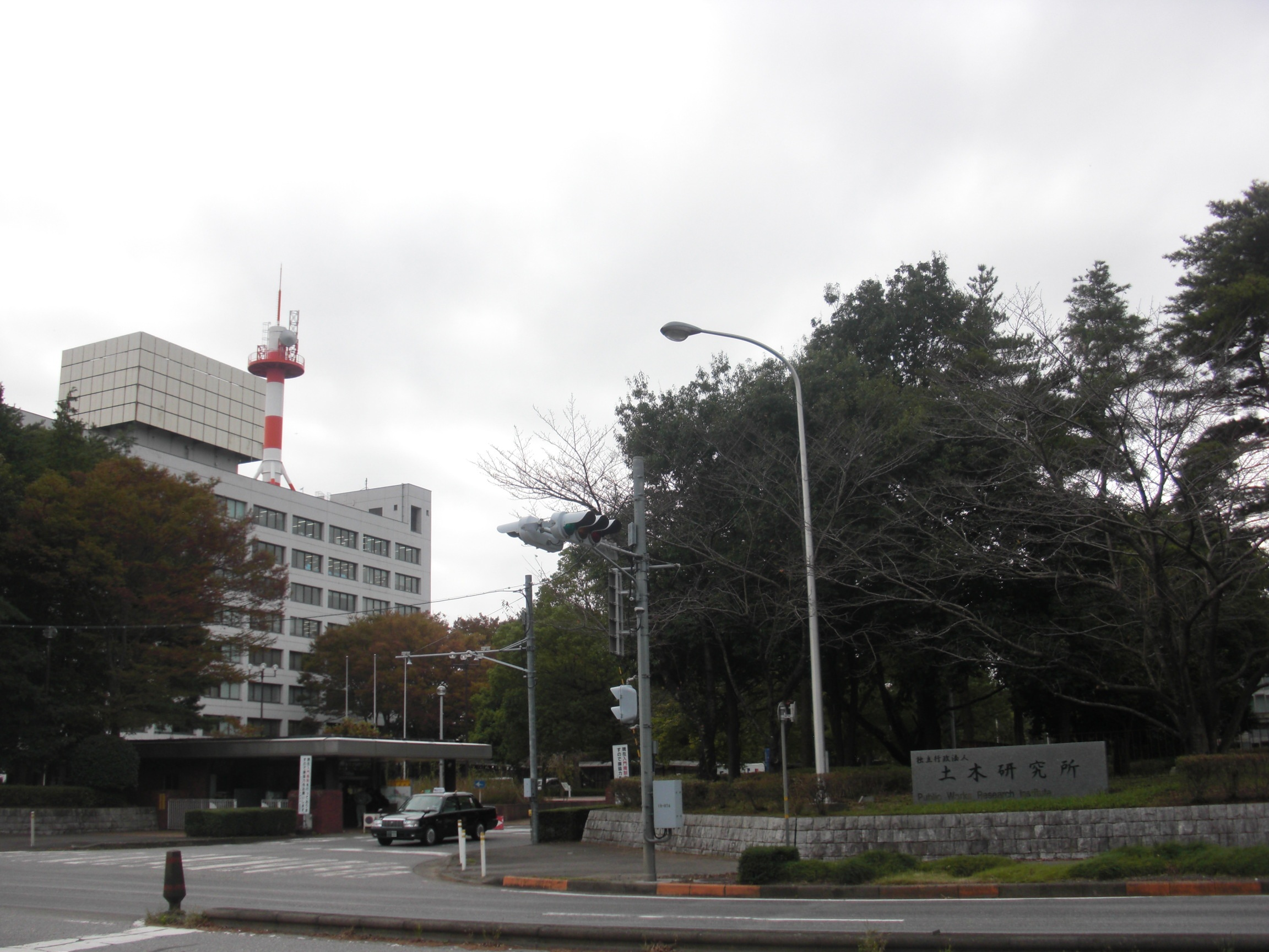 This is the Public Works Research Institute (PWRI) in Tsukuba, Ibaraki, Japan.